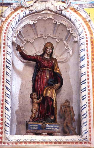 Caccuri, St. Mary of the Secour (1543)